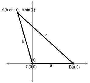 This diagram accompanies a proof of the Law of Cosines.